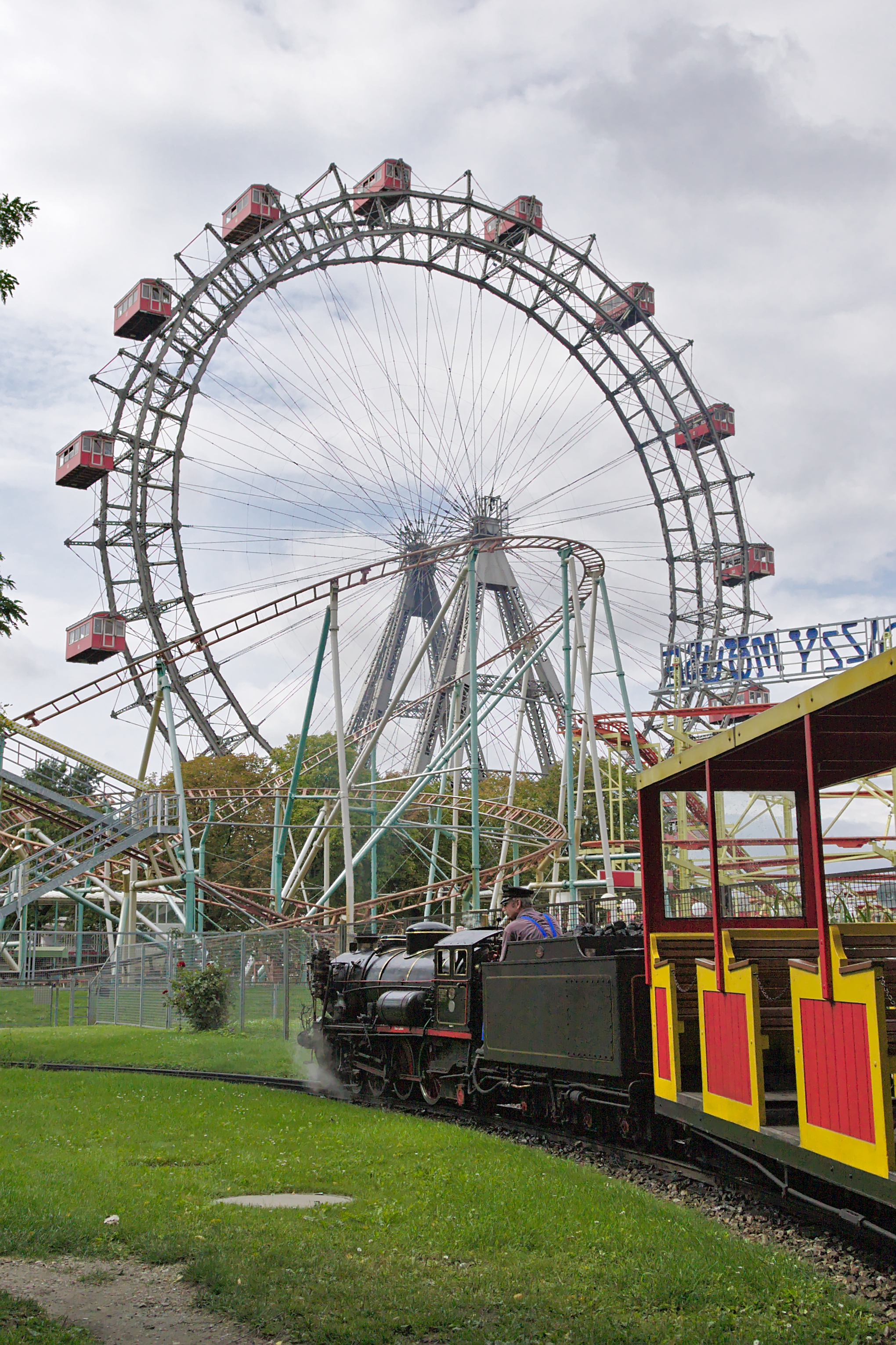 Train with Da2 in the balloon loop at the Riesenrad.